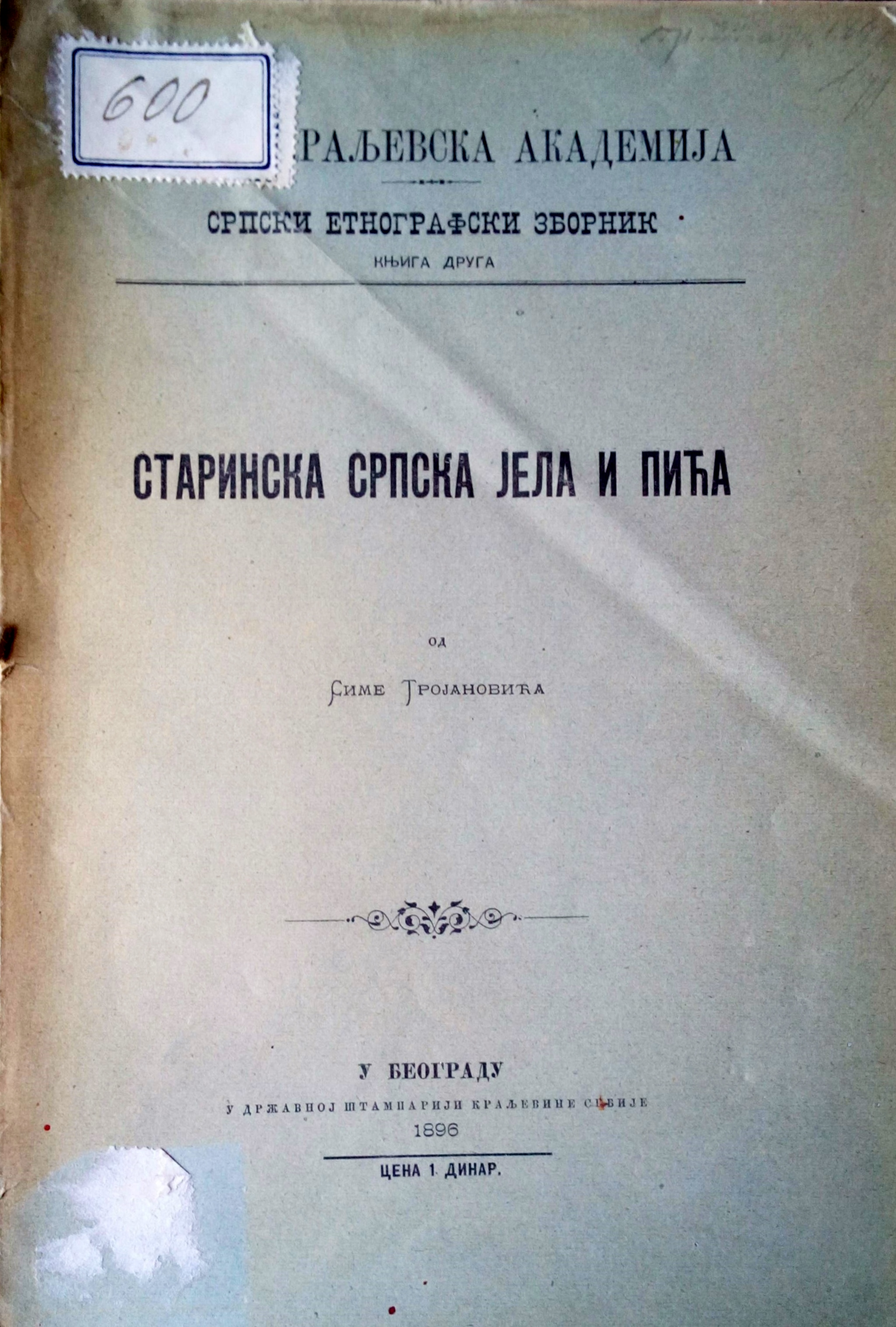 Cover of the book Starinska srpska jela i pića (1896) by Sima Trojanović. Srpski (latinica): Naslovna strana knjige Starinska srpska jela i pića (1896) autora Sime Trojanovića.